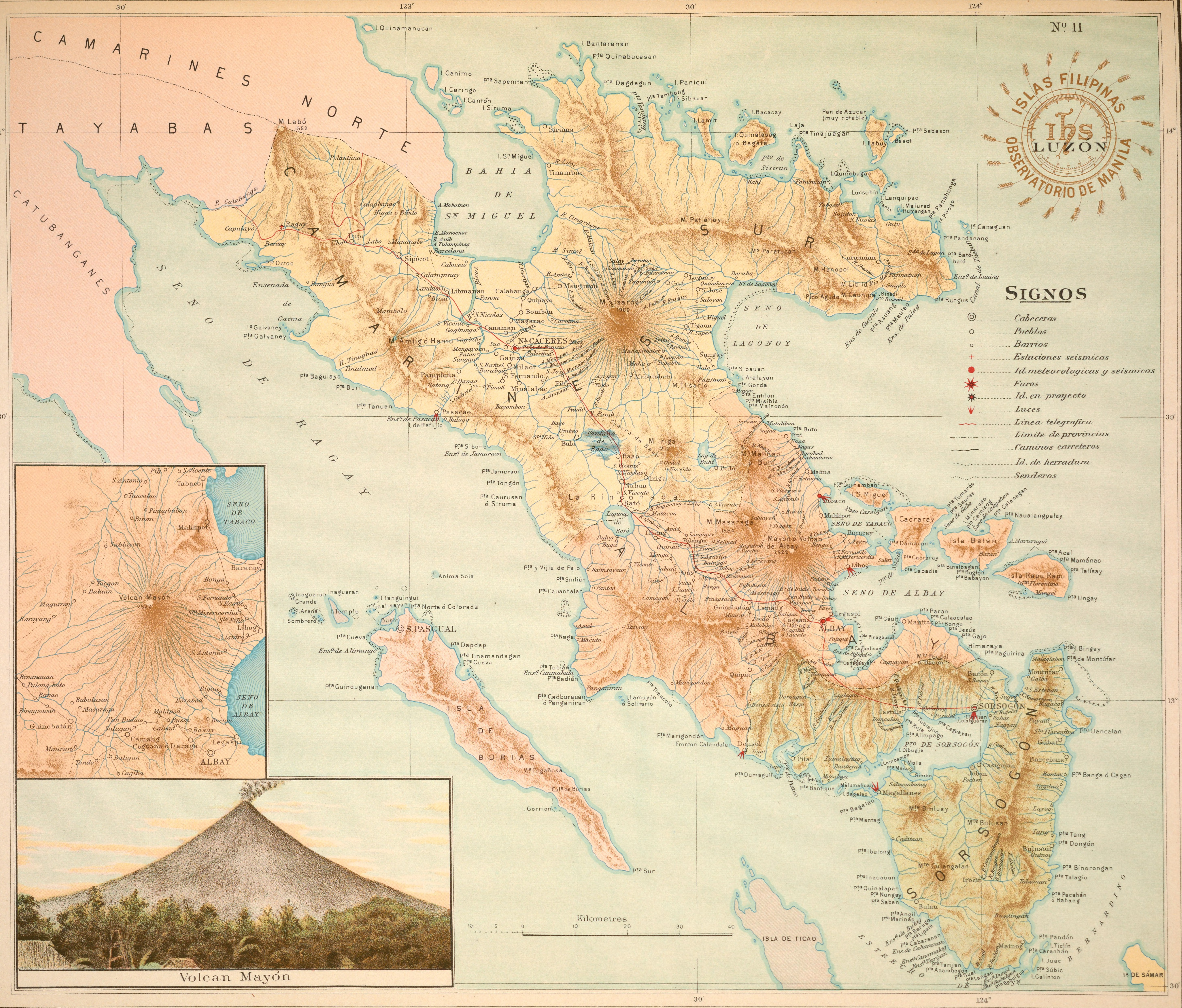 Title: Atlas of the Philippine Islands Year: 1900 (1900s) Authors: Algué, José, 1856- Algue, P. Jose, 1856- U.S. Coast and Geodetic Survey Subjects: Publisher: Washington : Govt. Print. Off. Text Appearing Before Image: UNITED STATES COAST AND GEODETIC SURVEY. N9 Text Appearing After Image: UNITED STATES COAST AND GEODETIC SURVEY. N? 12.